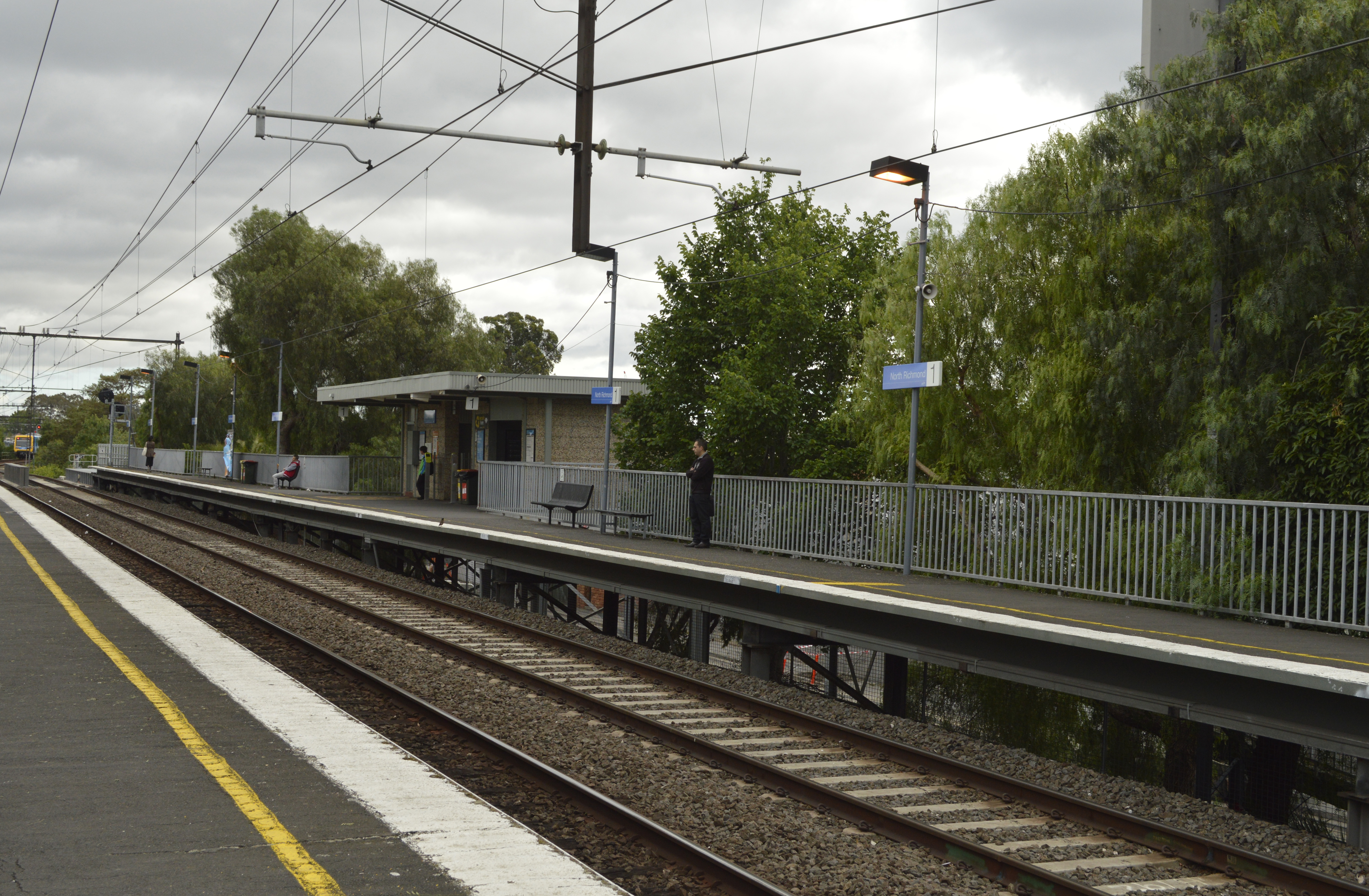 View from platform 2 looking north.